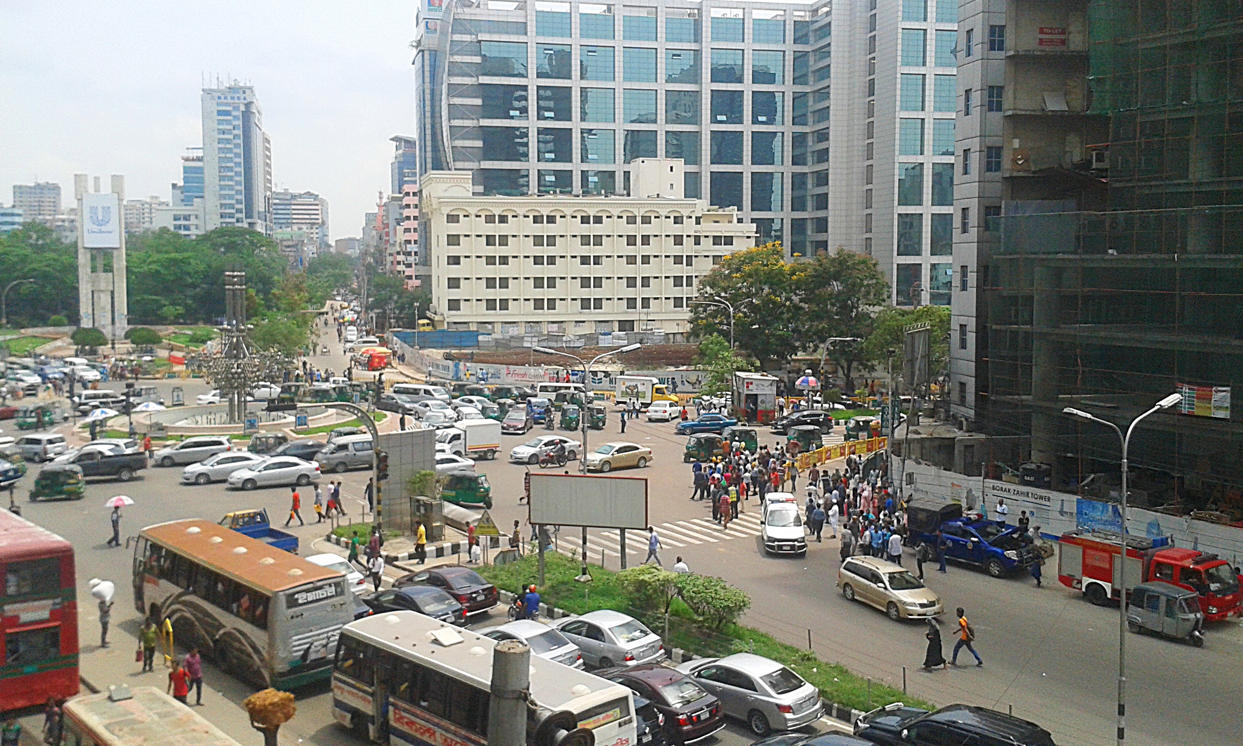 Karwan bajar dhaka